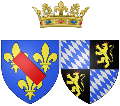 Coat of arms of Anne of Bavaria as Princess of Condé